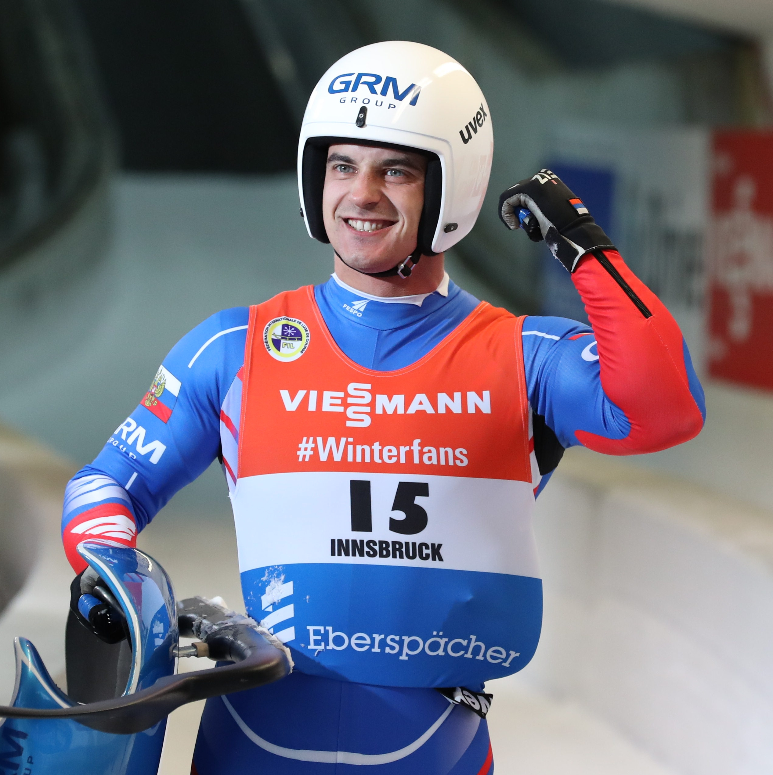 Doubles World Cup race at the 2018/19 Luge World Cup in Innsbruck-Igls